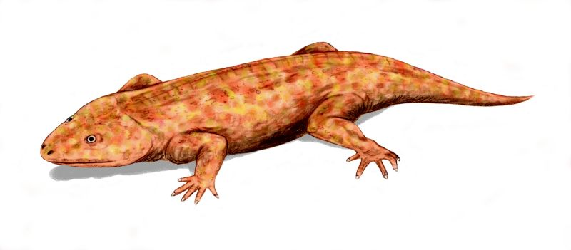 Seymouria baylorensis from the lower Permian of North America, pencil drawing